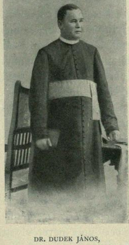 Portrait of Dudek János